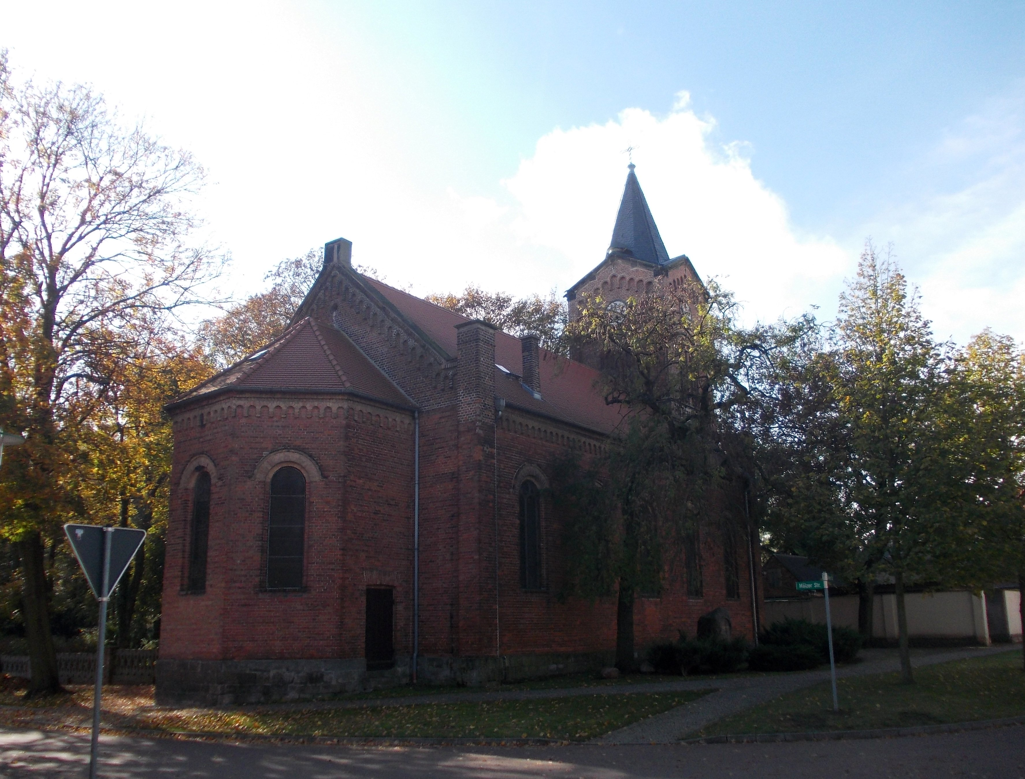 Kleinpaschleben church (Osternienburger Land, Anhalt-Bitterfeld district, Saxony-Anhalt)